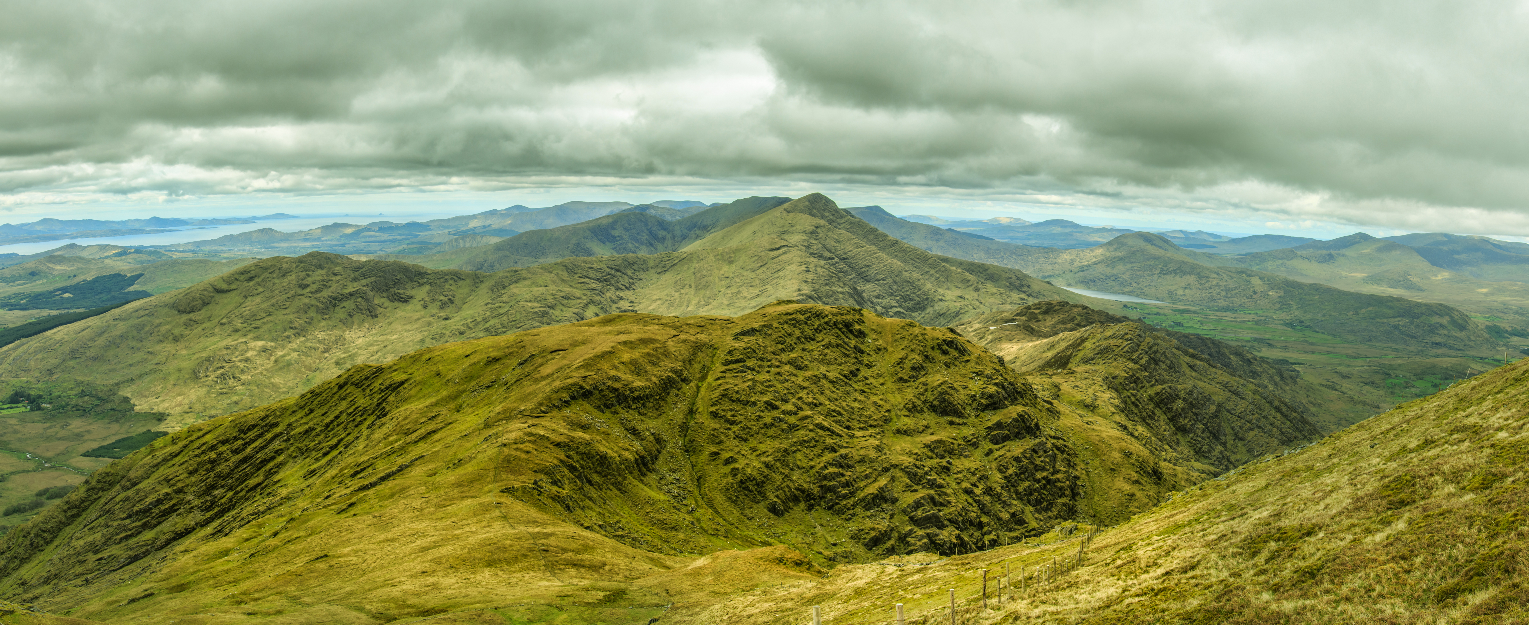 Looking from the western slope of Stumpa Dúloigh toward the Dunkerron/Iveragh mountains on the Iveragh peninsula. In the foreground lies Stumpa Dúloigh SW Top (663m), immediately behind and to the right lies Mullaghanattin (773m).